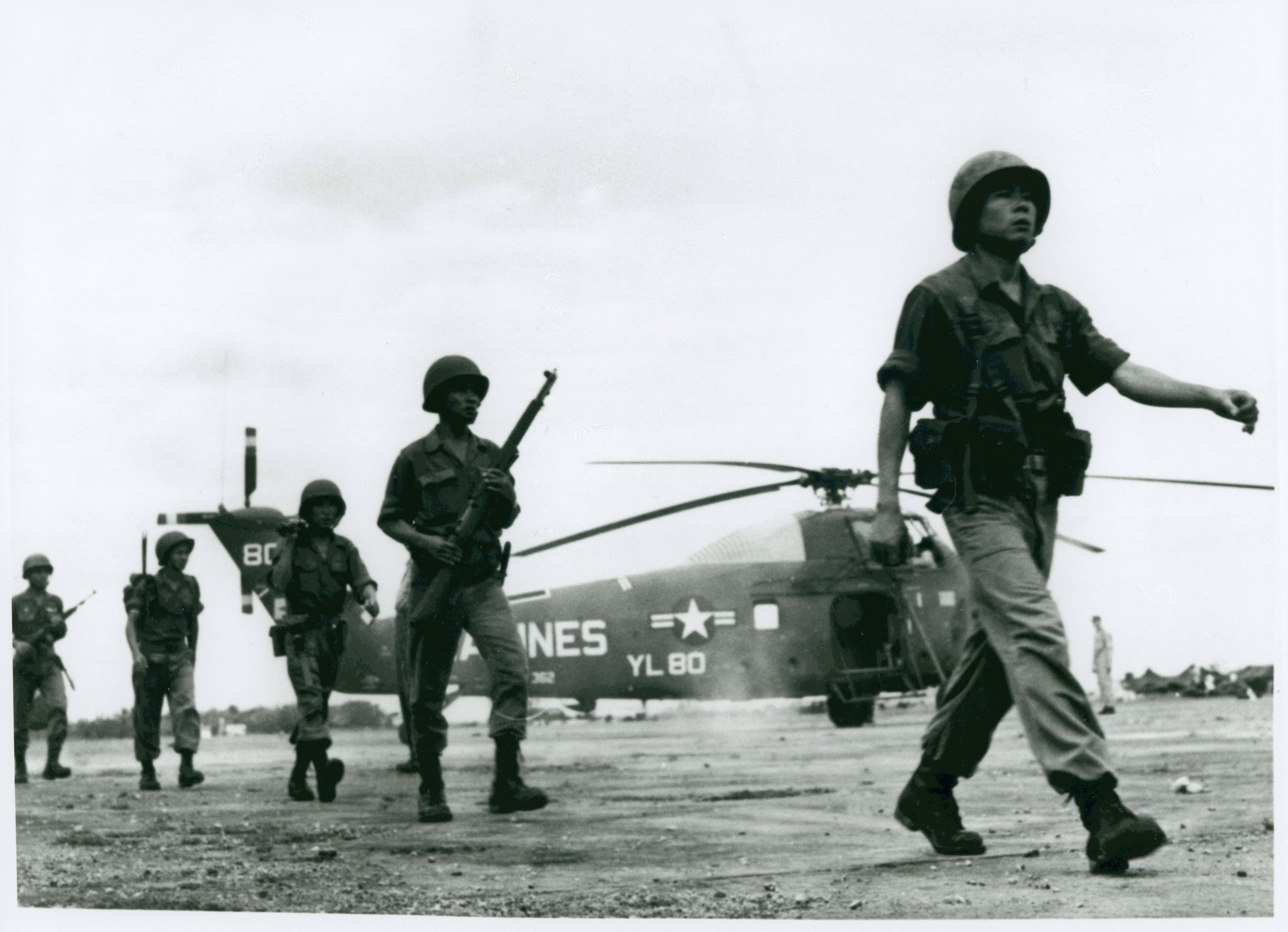 From the Archie J. Clapp Collection (COLL/742), Marine Corps Archives & Special Collections OFFICIAL USMC PHOTOGRAPH